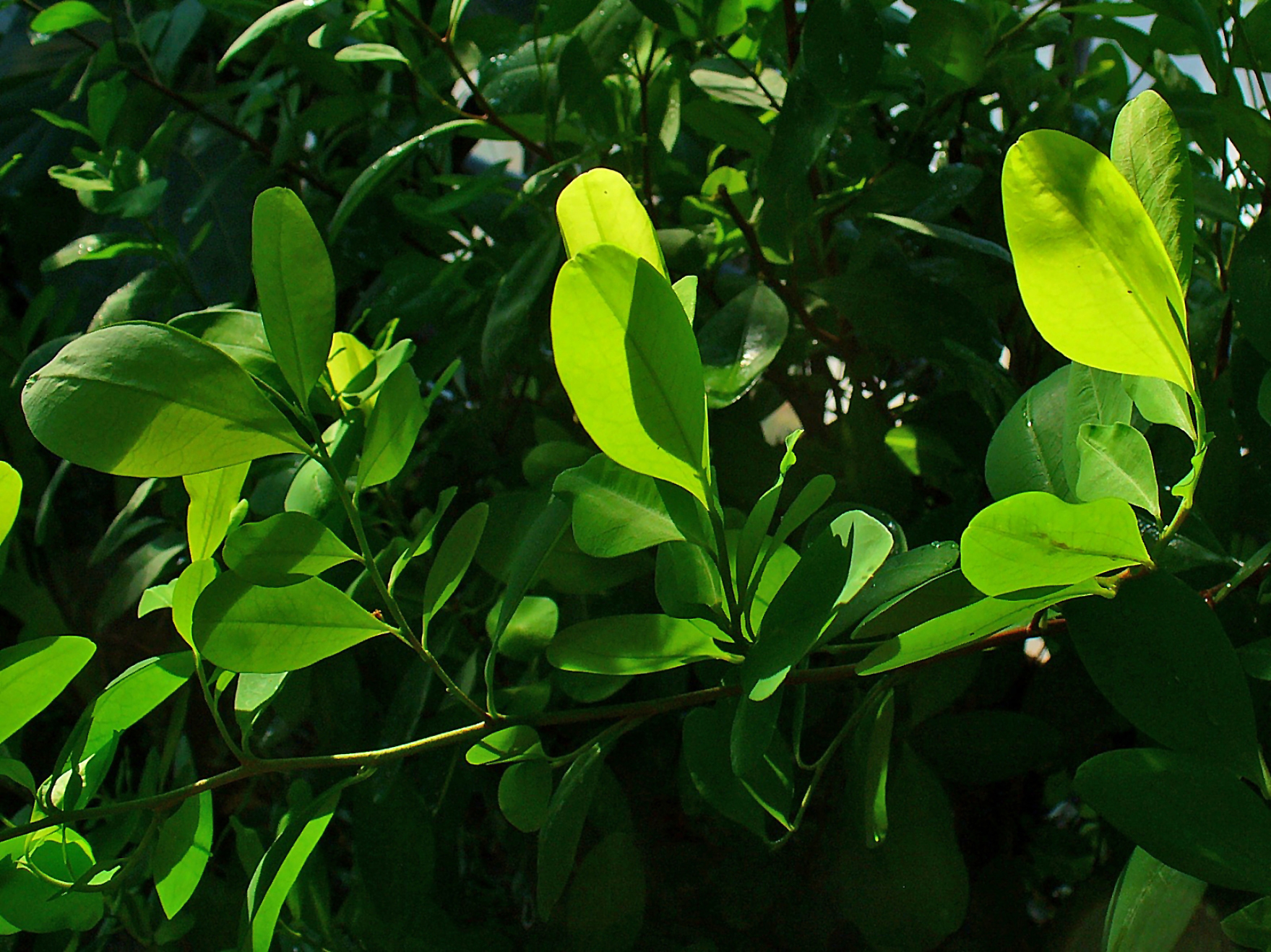 Erythroxylum coca, Erythroxylaceae, Coca, leaves. The alkaloid cocaine is used in homeopathy as remedy: Cocainum purum (Cocain-p.)